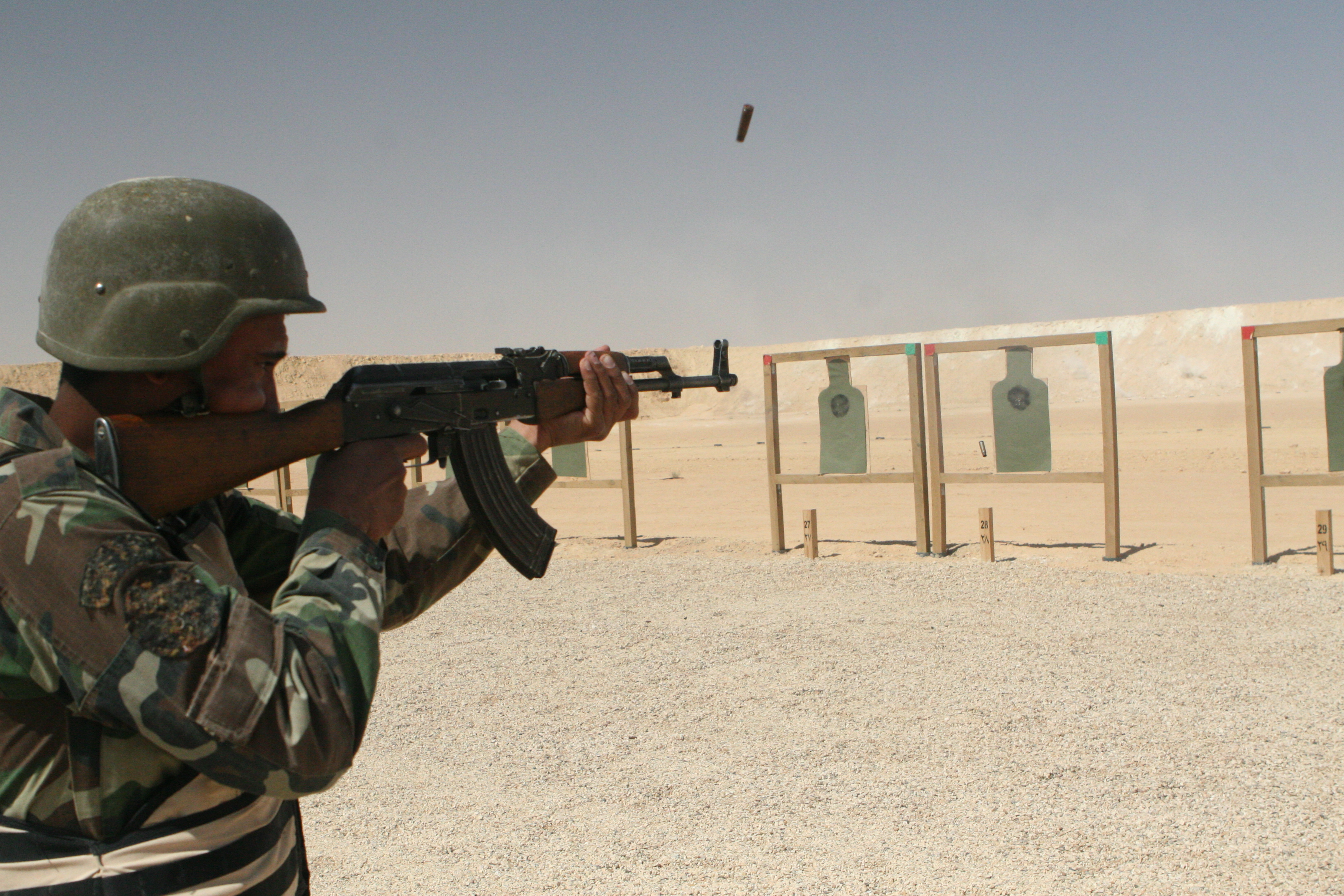 A shell casing flies through the air, as an Iraqi Commando from the 7th Iraqi Army performs firing drills during a live-fire exercise, March 20, 2009. The Commandos executed reloading drills and focused on specific firing techniques during the exercise.